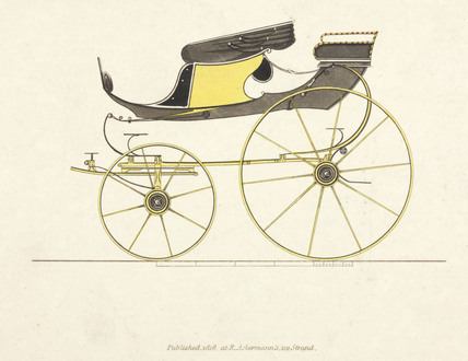 Print, one of a series of nine showing early 19th century carriages, published by R Ackermann, 101 Strand, London.